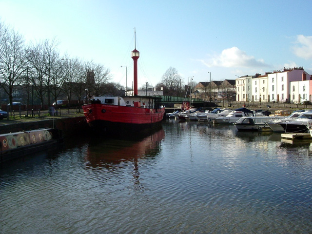 Lightship in Bathurst Basin, Bristol Harbour.